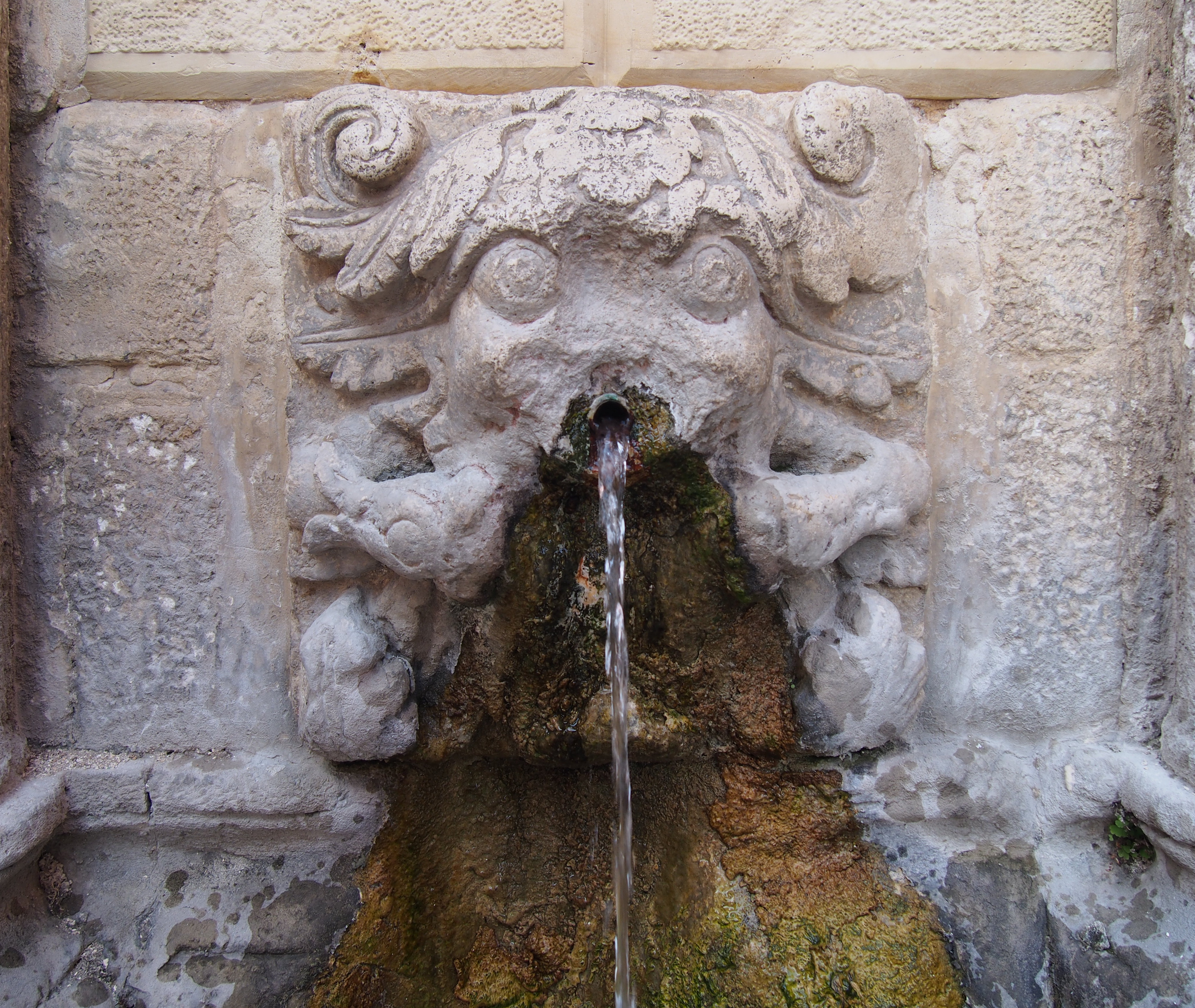 The westernmost of the Rimondi fountain faces